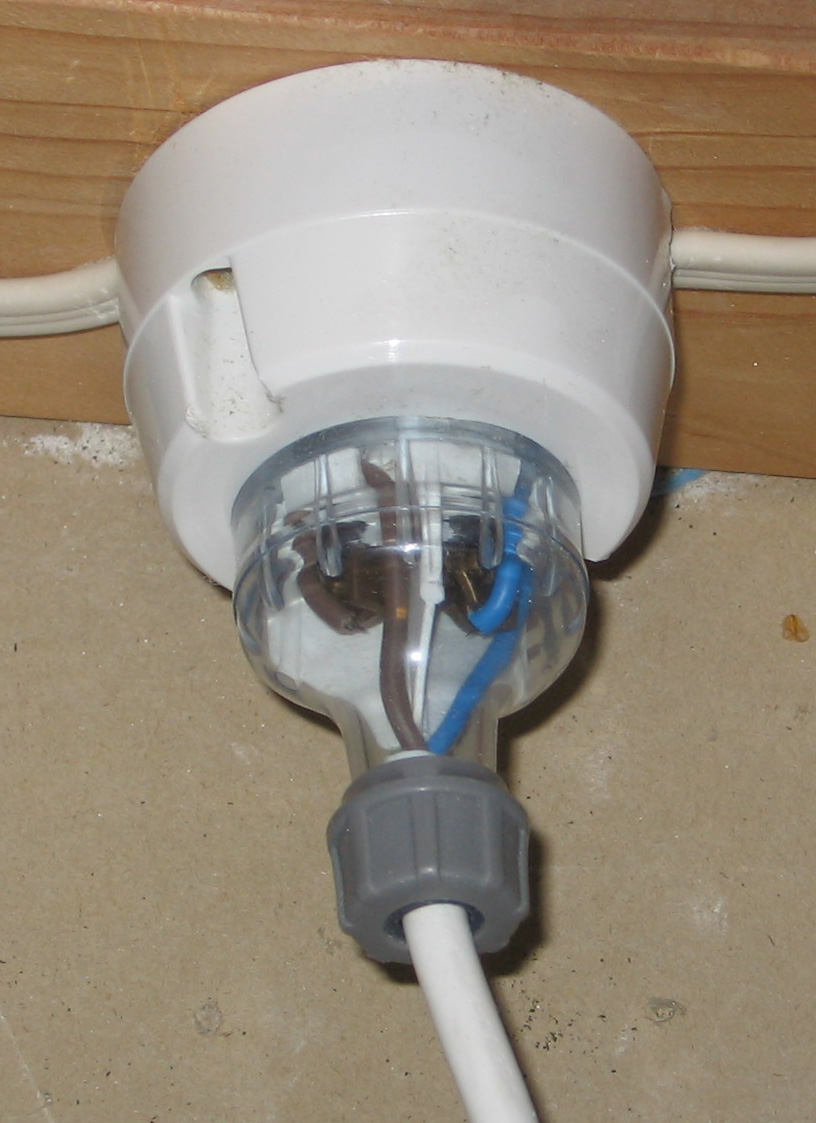 Australian "Un-Switched" Surface Socket-Outlet and Plug (While the Socket-Outlet itself is "Un-Switched", the circuit on which it is installed is switched, by the switch controlling the luminiare/appliance for which this Socket-Outlet is provided.) This item is installed in a ceiling space complies with AS/NZS 3000 - 4.4.4.1 in that it is ”A socket-outlet that is rated at not more than 10 A, installed for the connection of a fixed or stationary appliance or a luminaire and that is not readily accessible for other purposes." It also complies with AS/NZS 3000 - 4.4.4.3 in that it is "(a) Located more than 2.5 m above the floor; and (b) Provided for the connection of a specific luminaire or appliance; and (c) Not accessible for general use."